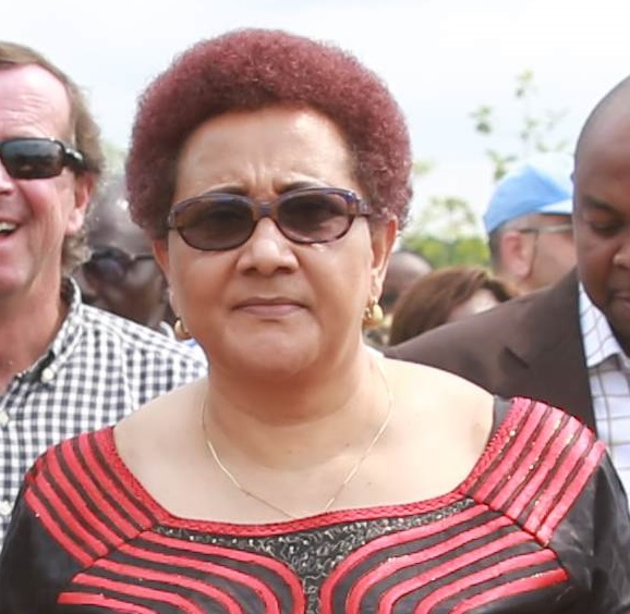 A joint ICGLR-SADC delegation, accompanied by the Head of MONUSCO, Martin Kobler, and Congolese officials, on a visit to Camp Lt-Gen Bahuma, the transit site for former FDLR combatants, to see the living conditions there and the status of the process of their voluntary surrender which must be completed by 2 January 2015. Photo MONUSCO/ Abel Kavanagh